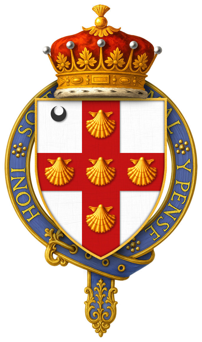 Shield of Arms of George Villiers, 6th Earl of Clarendon, KG, as displayed on his Order of the Garter stall plate in St. George's Chapel.